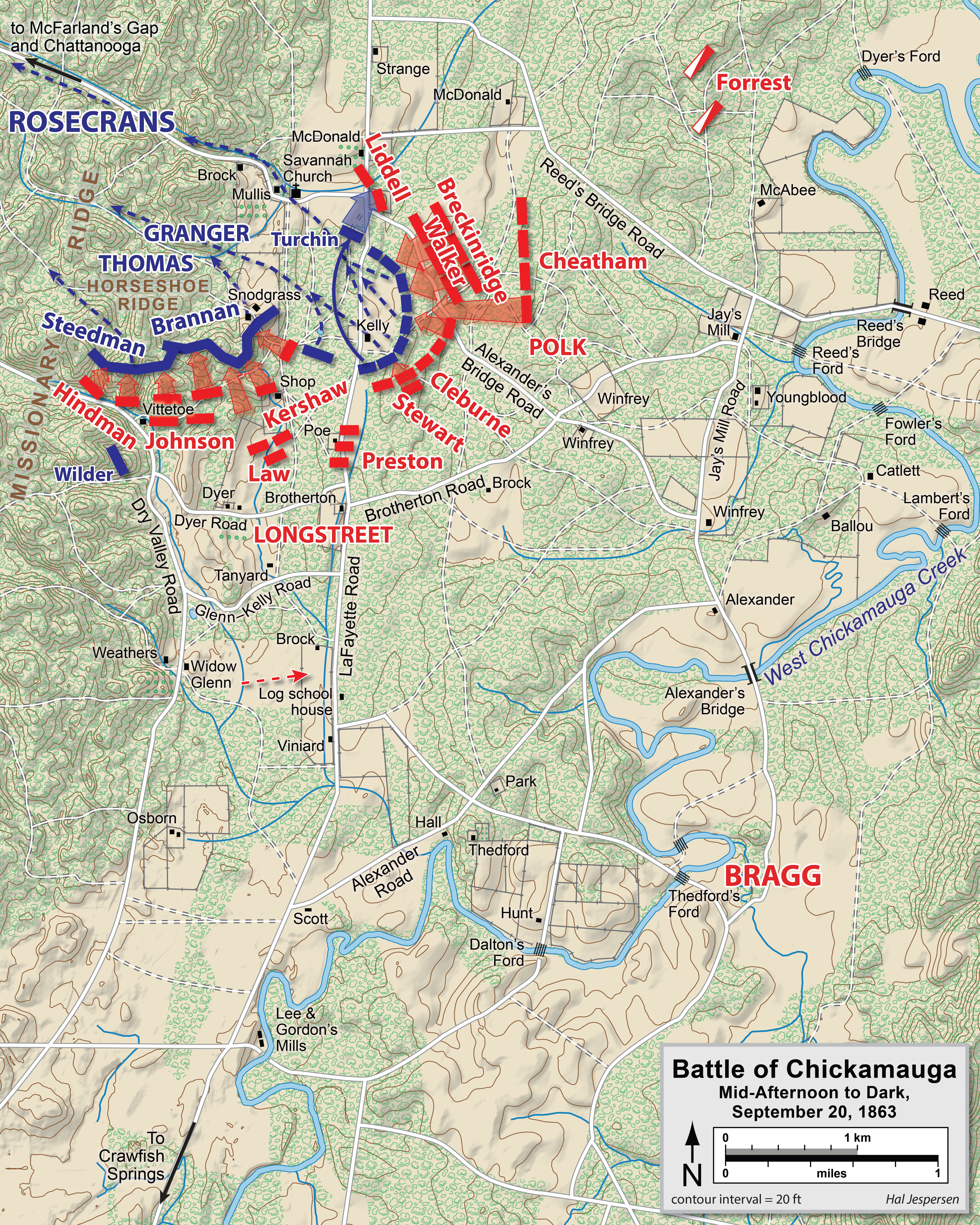 Map of Battle of Chickamauga of the American Civil War, actions on September 20, 1863, part 3. Drawn in Adobe Illustrator CS5 by Hal Jespersen. Graphic source file is available at